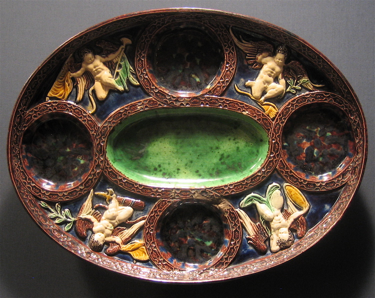 France Oval Dish with Winged Putti, 1560-1600 Ceramic, Lead-glazed earthenware, Palissy ware, 1 15/16 x 13 x 10 in. (4.92 x 33.02 x 25.4 cm) Purchased with funds provided by Edward Marshall Boehm, Inc., Mrs. E. Lupin Bolian, E. Coll Brown, Mary A. Bussell, Helen van de Carr, Father E.M. Catich, Mrs. Belle Chandler, and Mrs. Clara E. Piper-Chapman (82.9.3) Wikipedia Loves Art at the Los Angeles County Museum of Art This photo of item # 82.9.3 at the Los Angeles County Museum of Art was contributed under the team name "artifacts" as part of the Wikipedia Loves Art project in February 2009. Los Angeles County Museum of Art The original photograph on Flickr was taken by Beesnest McClain—please add a comment to the original Flickr page whenever a use has been made on Wikipedia or another project. Project galleries on Flickr: this institution, this team